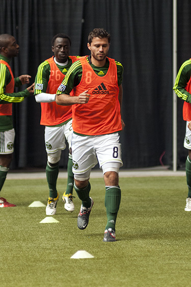 Photo of soccer player Peter Lowry